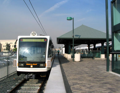 Gold Line train platform at Union Station Photo taken by user DaveofCali (David Liu)